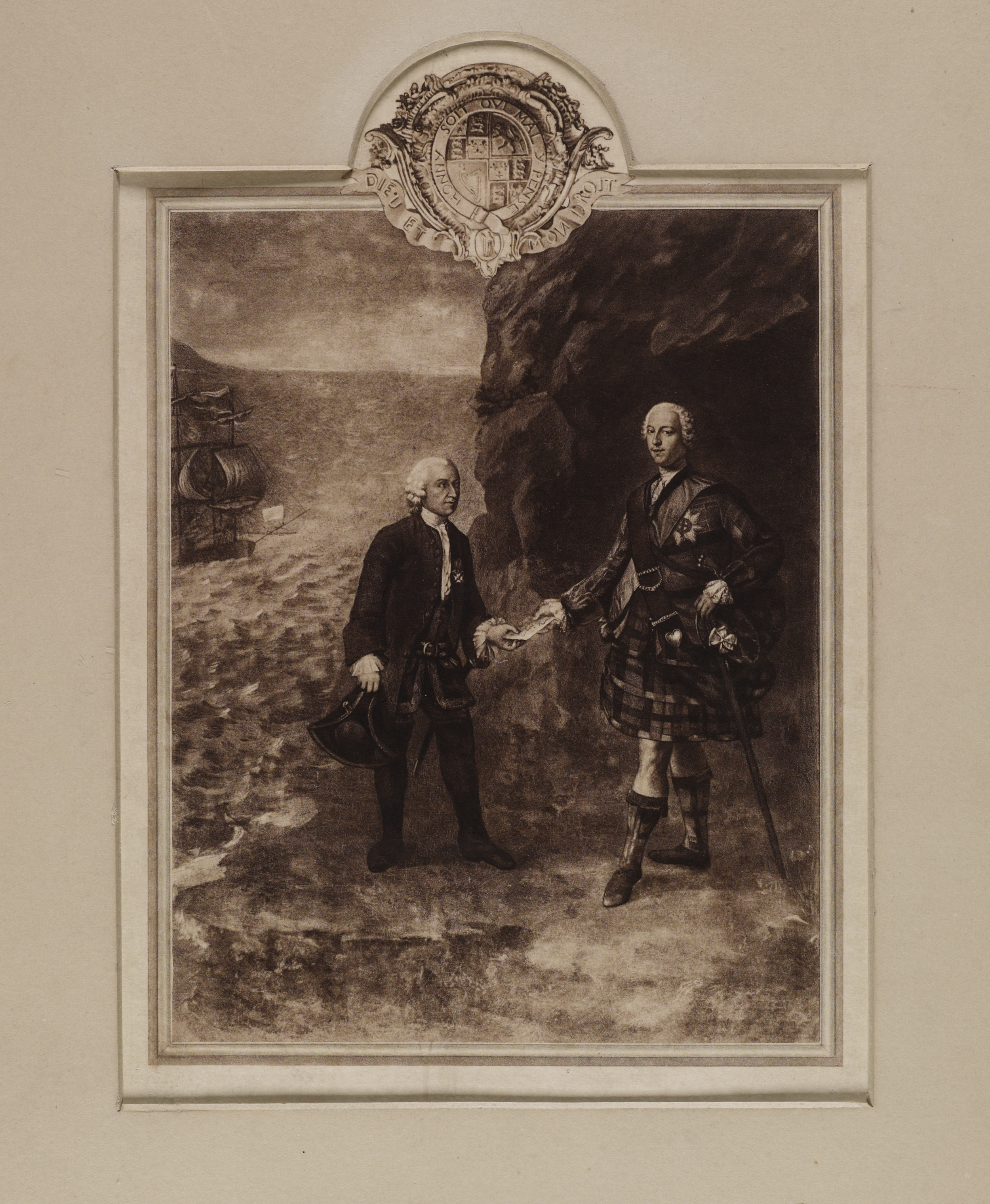 Prince Charles Edward Stuart and Antoine WALSH landing at Moidart from the ship Portrait of Prince Charles Edward Stuart and Walsh, standing on the shore, Prince handing Walsh a letter. Boat in background. Prince Charles dressed in highland kilt, with walking stick at side. Seal at top that says "Honny Soit Qui Mal Pense" and a banner with "Dieu et Mon Droit"